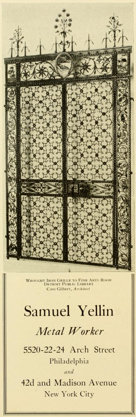 Advertisement: Samuel Yellin, Metal Worker.